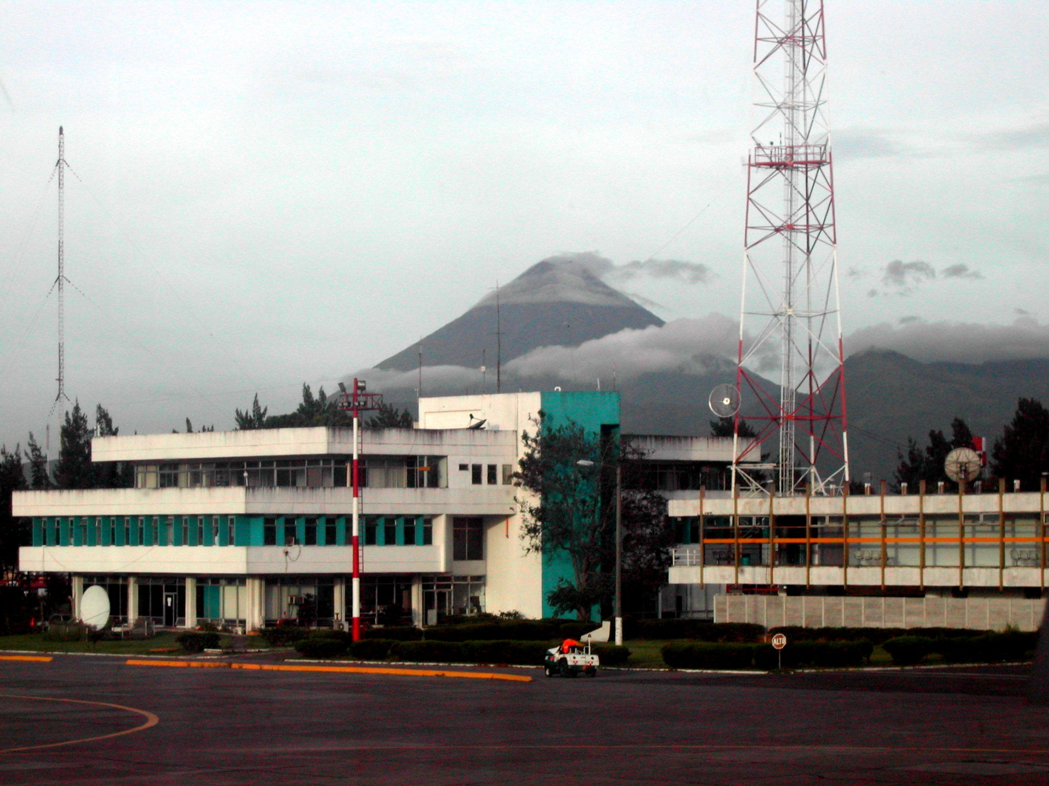 Sight from departures hall in Guatemala airport